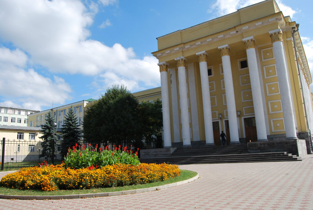 Здание СОГУ